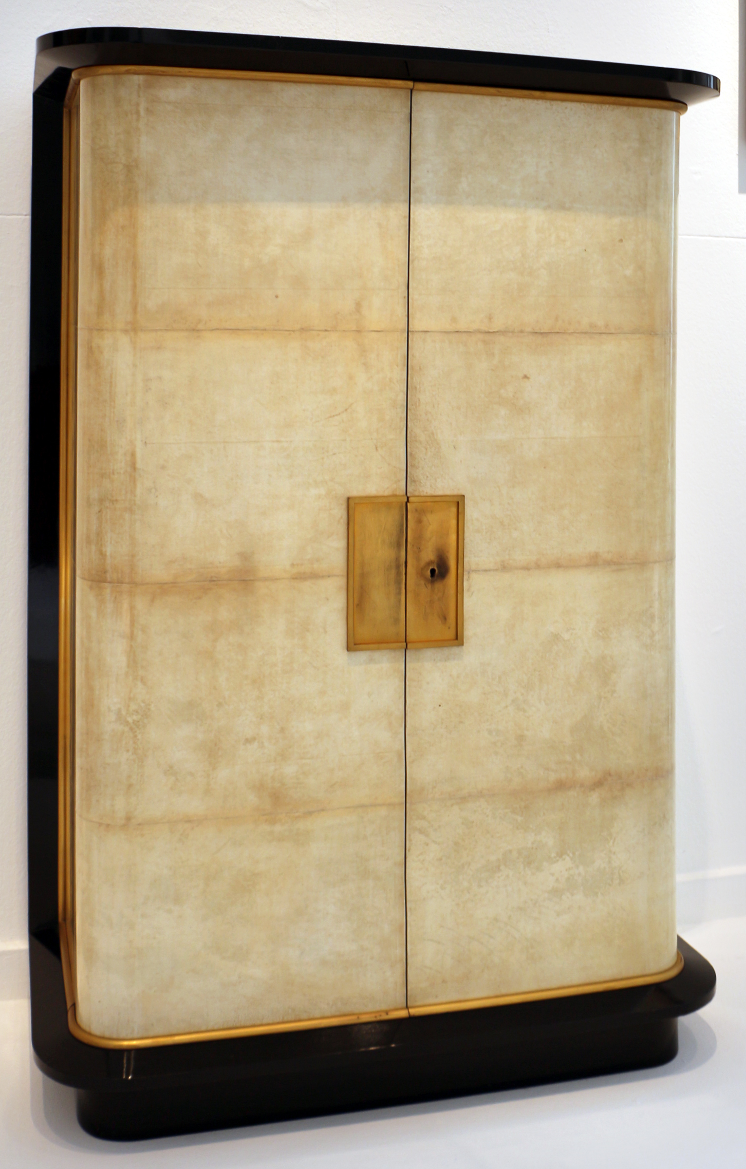 Collections of the Musée d'Art Moderne de la Ville de Paris